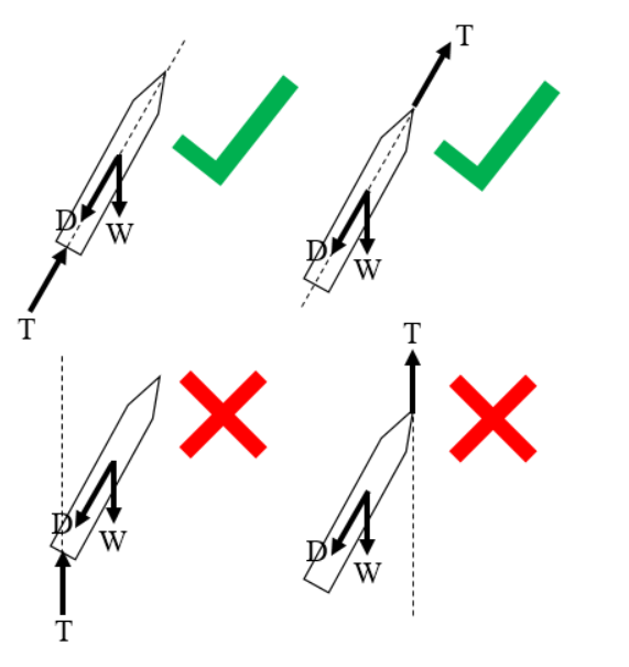 Free body diagrams illustrating the pendulum rocket fallacy. On the left are typical rockets with thrust applied at the base; on the right, thrust is applied at the nose of the rocket. The upper row shows the actual set of forces on each rocket (weight W, drag D, and thrust T), with the thrust vector passing through the center of mass of the rocket. The lower row shows the fallacy in which the thrust vector is assumed to point upward at all times, and acts as a destabilizing or stabilizing force depending on where it is applied.